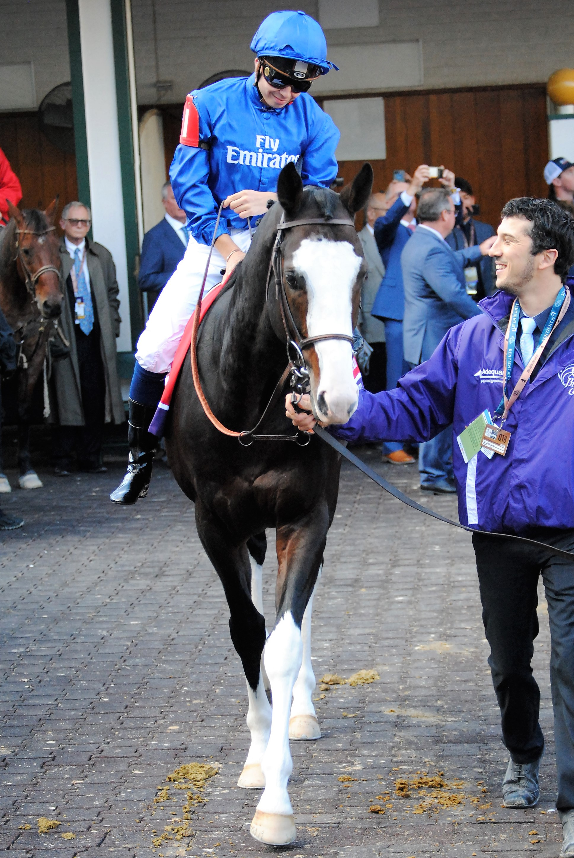 Talismanic and Mickael Barzalona at the 2018 Breeders' Cup